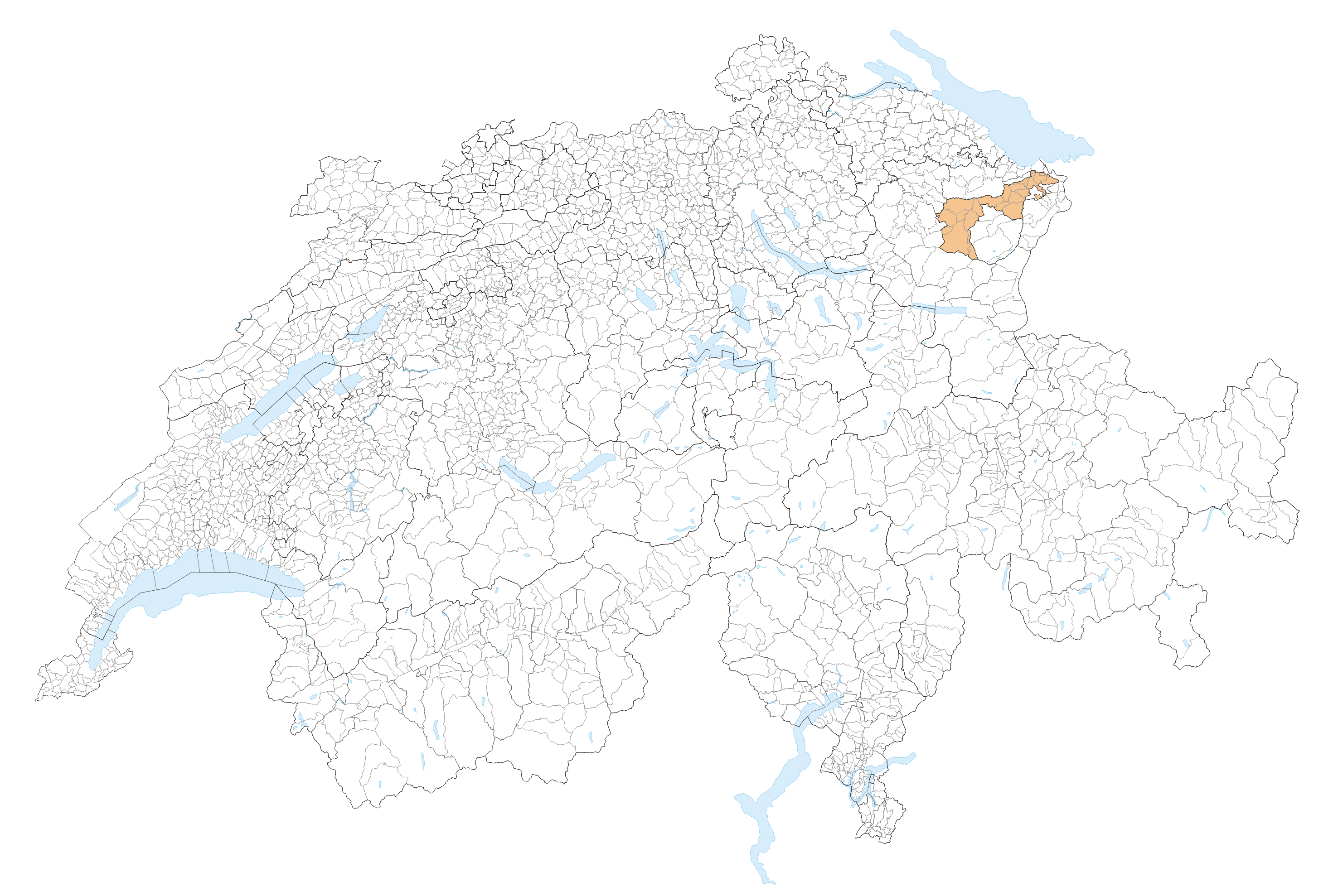 Kanton Appenzell Ausserrhoden